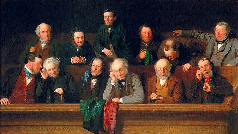 This is Swampyank's copy of "The Jury" by John Morgan, painted in 1861, and now in the Bucks County Museum in England. More information about the painting can be found here